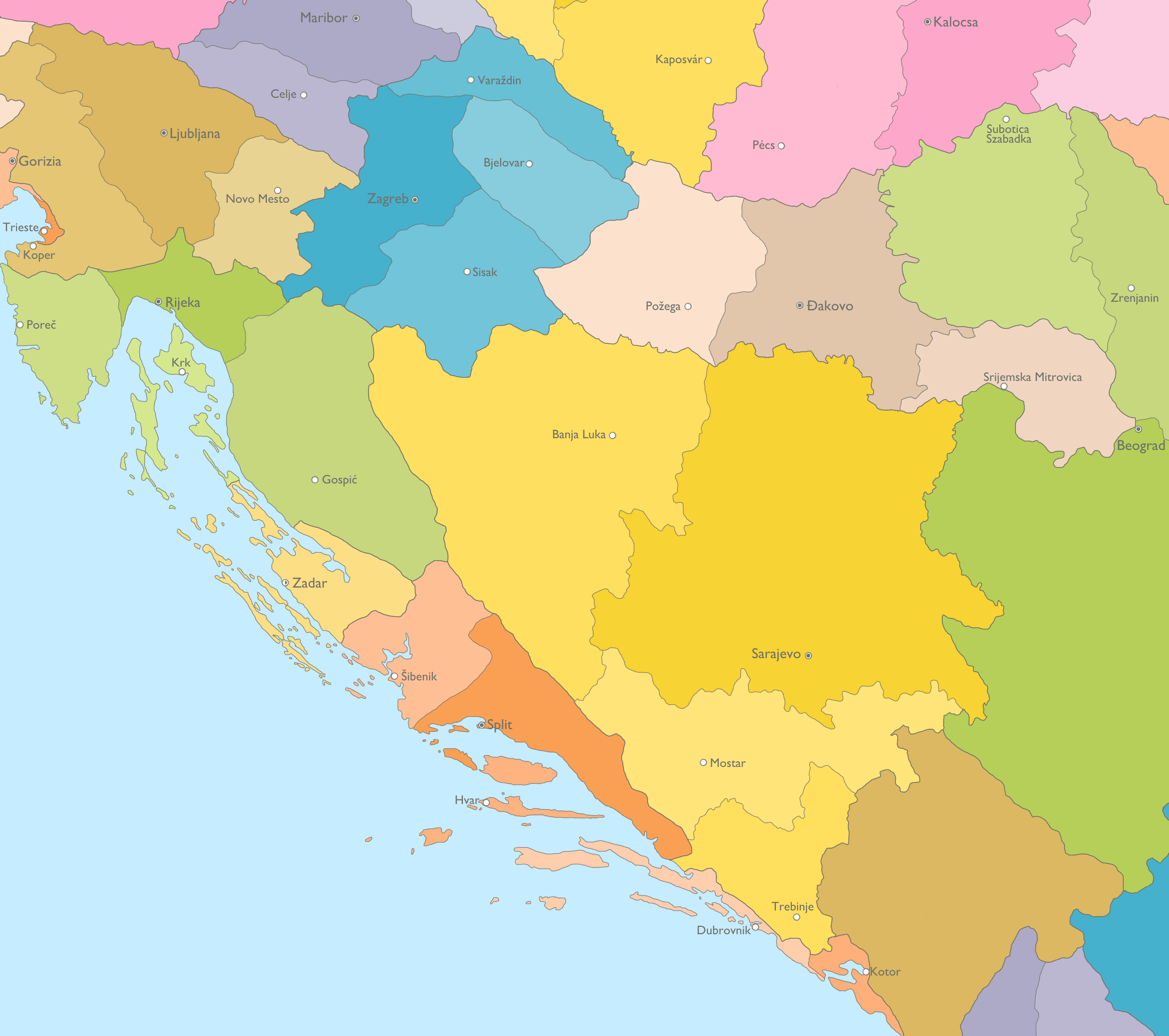 Ecclesiastical hierarchy and provinces in countries of Adriatic SeaHrvatski: Crkvene pokrajine i ustrojstvo zemalja Jadranskog mora